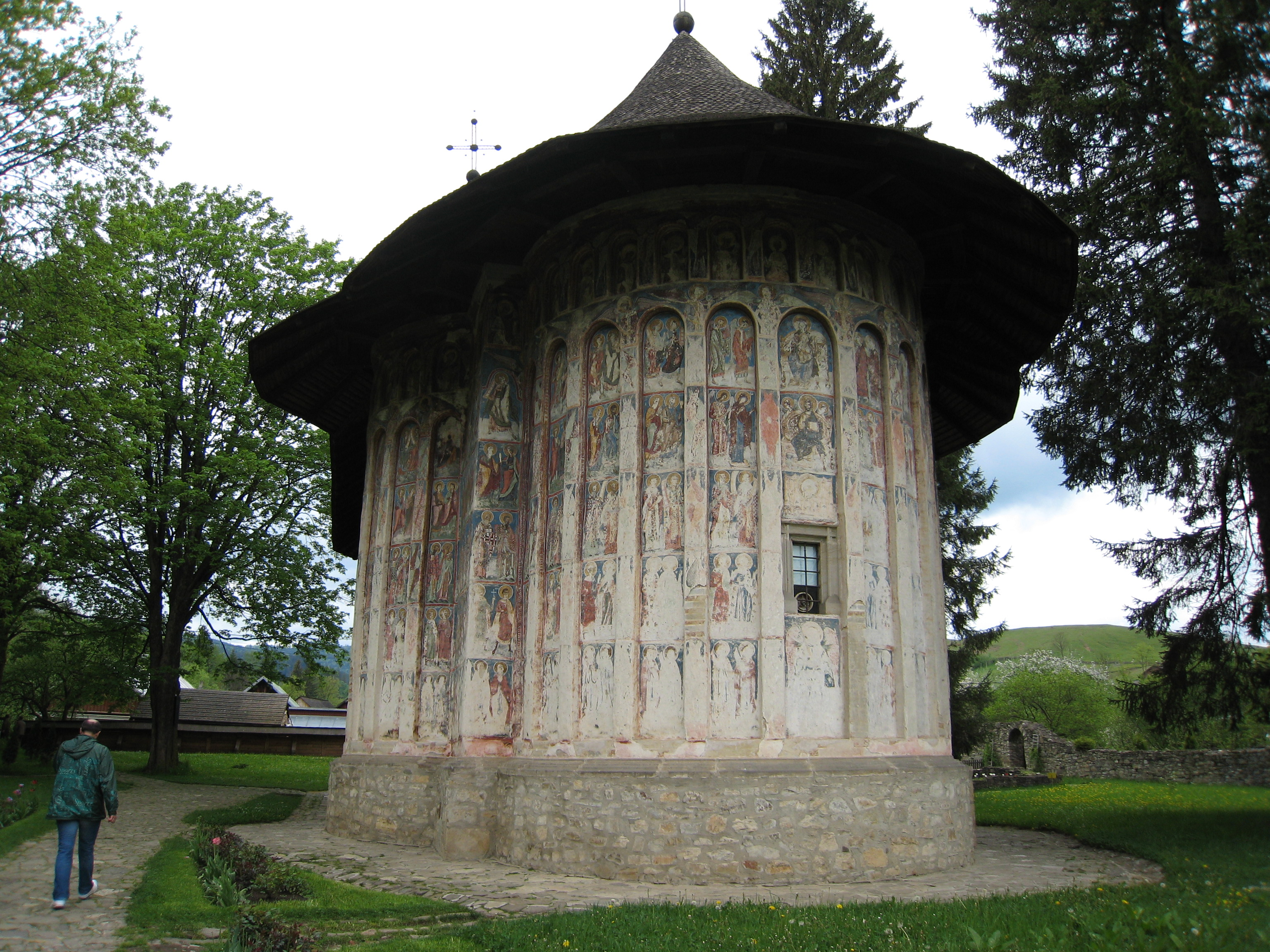 Humor Monastery, Bucovina